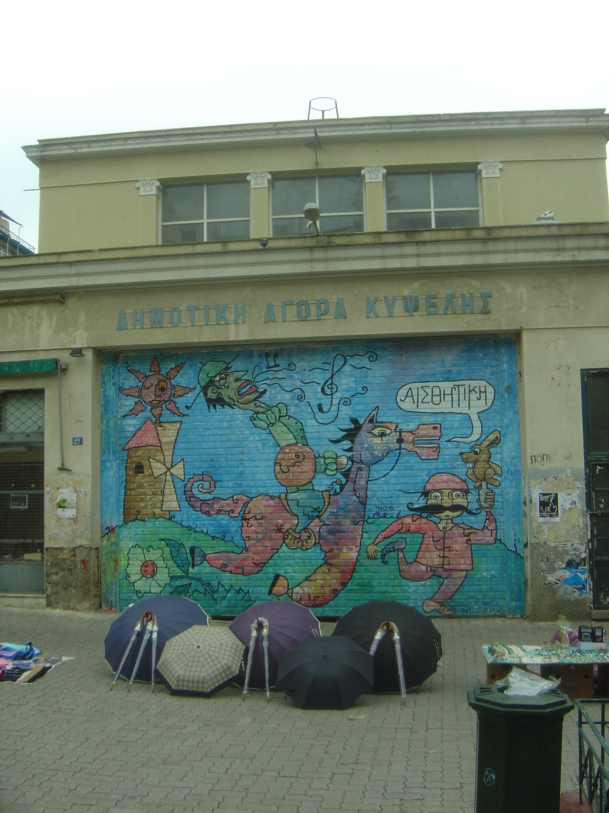 Fokionos Negri old market in Athens, Greece